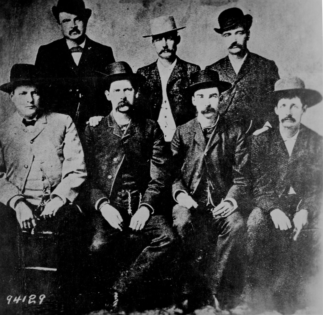 The "Dodge City Peace Commission" June 1883. From left to right: Standing: W.H. Harris, Luke Short, Bat Masterson; Seated: Charlie Bassett, Wyatt Earp, Frank McLain and Neal Brown.